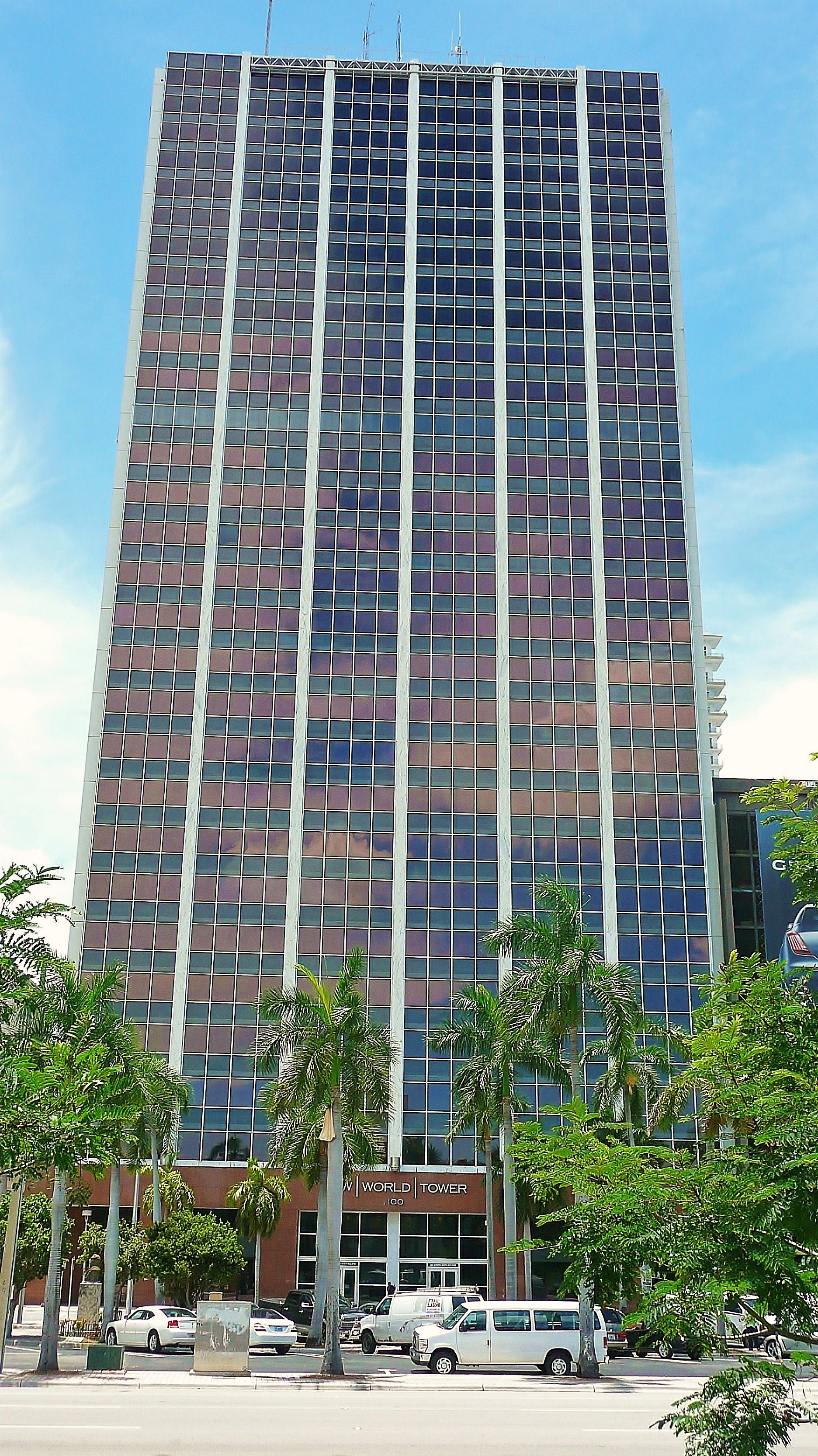 Digital photo taken by Marc Averette. The New World Tower in Downtown Miami, Florida, United States.